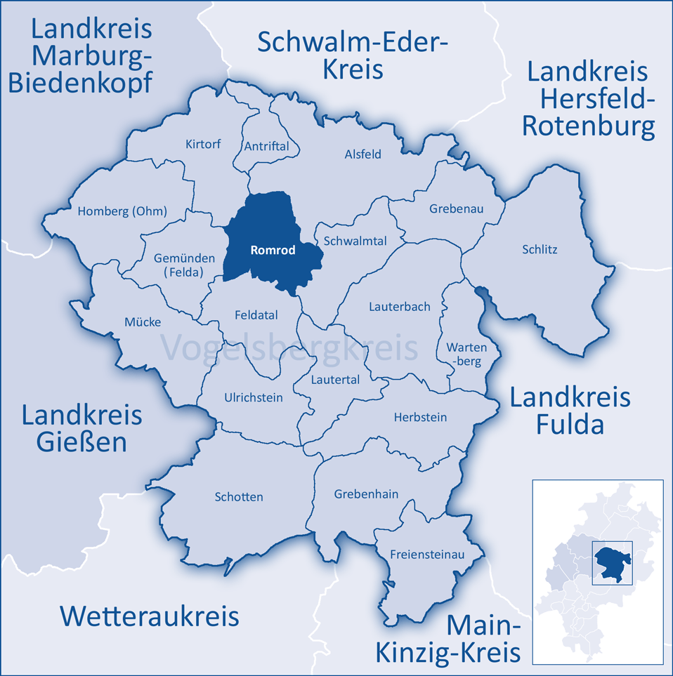 The map shows a district in the area of Vogelsbergkreis